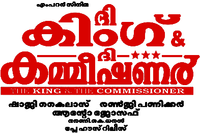 The title poster for the Malayalam film The King & The Commissioner